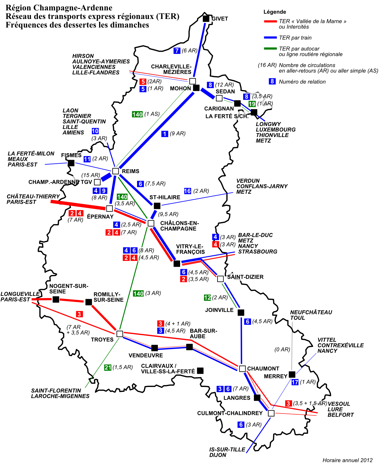 Regional transport network of Champagne-Ardenne : frequence of the service on Sundays, annual timetable 2012, without TGV and night trains.